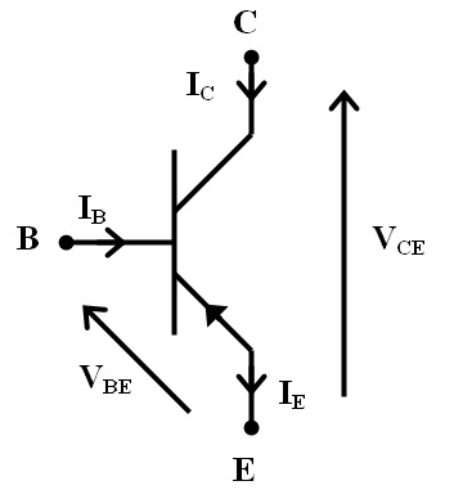 Transistor_PNP_convention